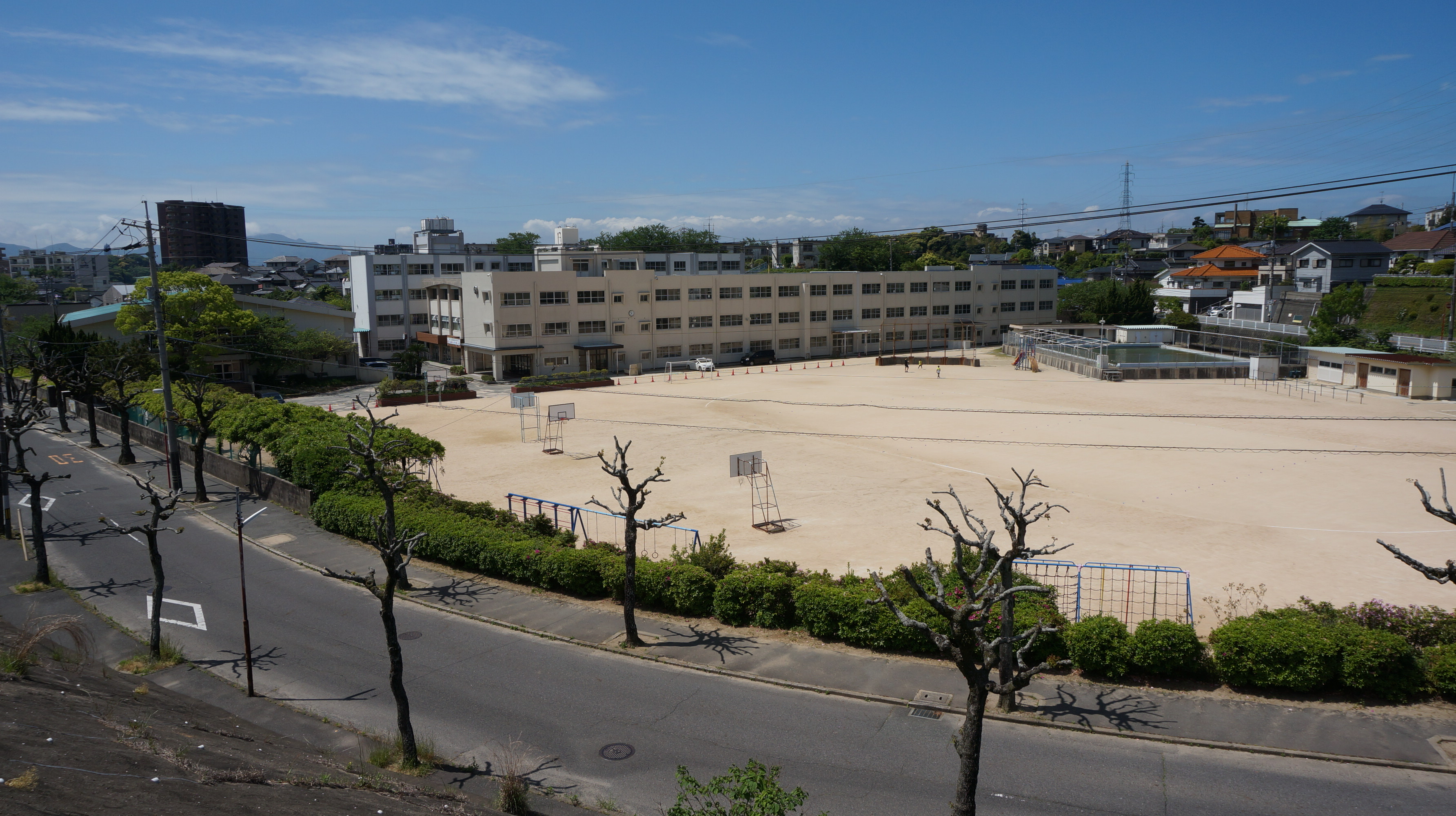 Yamanota elementary school, Shimonoseki-city